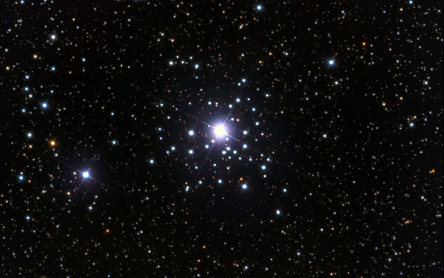 Tau Canis Majoris Cluster Picture Details: Optics 32-inch Schulman Telescope (RC Optical Systems) Camera SBIG STL11000 CCD Camera Filters Custom Scientific Dates January 26th 2011 Location Mount Lemmon SkyCenter Exposure RGB: 20:20:20 Acquisition ACP Observatory Control Software (DC-3 Dreams),TheSky (Software Bisque), Maxim DL/CCD (Cyanogen) Processing CCDStack (CCDWare), Photoshop CS3 (Adobe) Credit Line and Copyright Adam Block/Mount Lemmon SkyCenter/University of Arizona